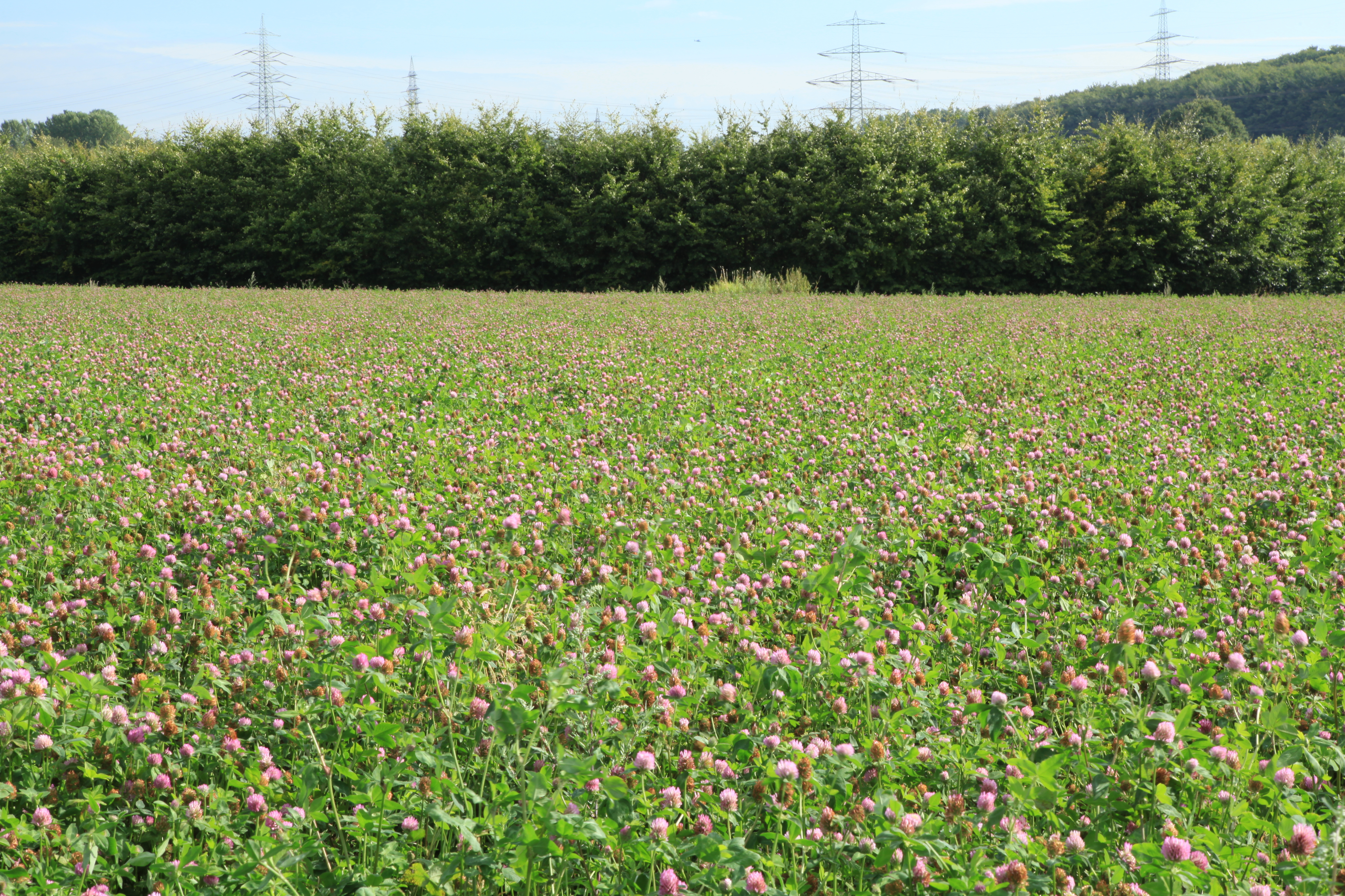 Trifolium pratense field for seed production, Vor den Teichen in Bochum